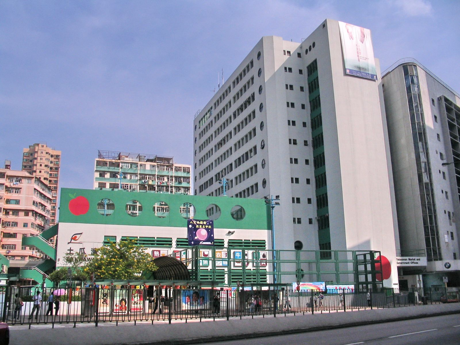 土瓜灣市政大廈暨政府合署 Tokwawan Market and Government Offices